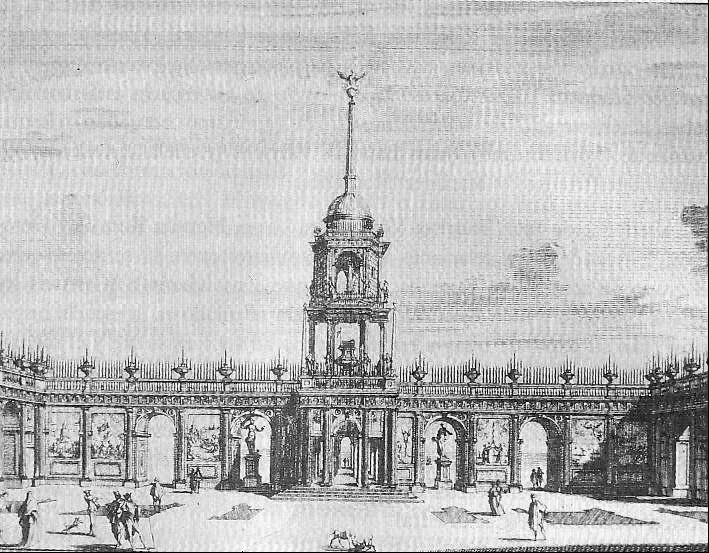 Picture of a public monument of the 17th-century